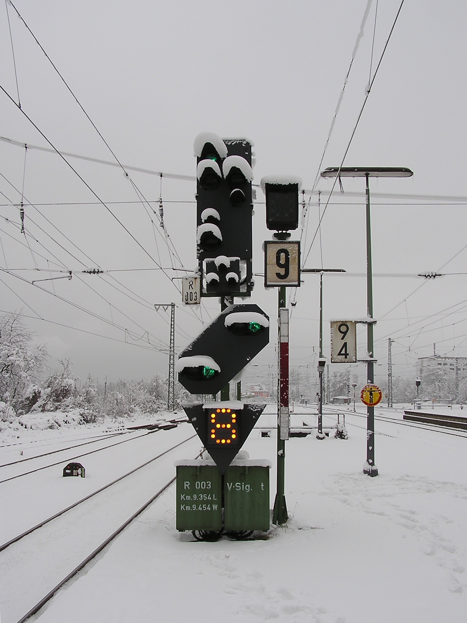 An intermediate signal in Frankfurt-Höchst station. The post plate is mounted next to the structure due to restricted clearances. The main signal displays Hp 1 (Clear) and the distant signal displays a Vr 1 (Expect clear) indication, including a speed announcing indicator (Zs 3v), that announces an 80 km/h limit.